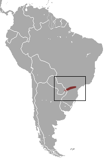 Single-striped Opossum (Monodelphis unistriata) range